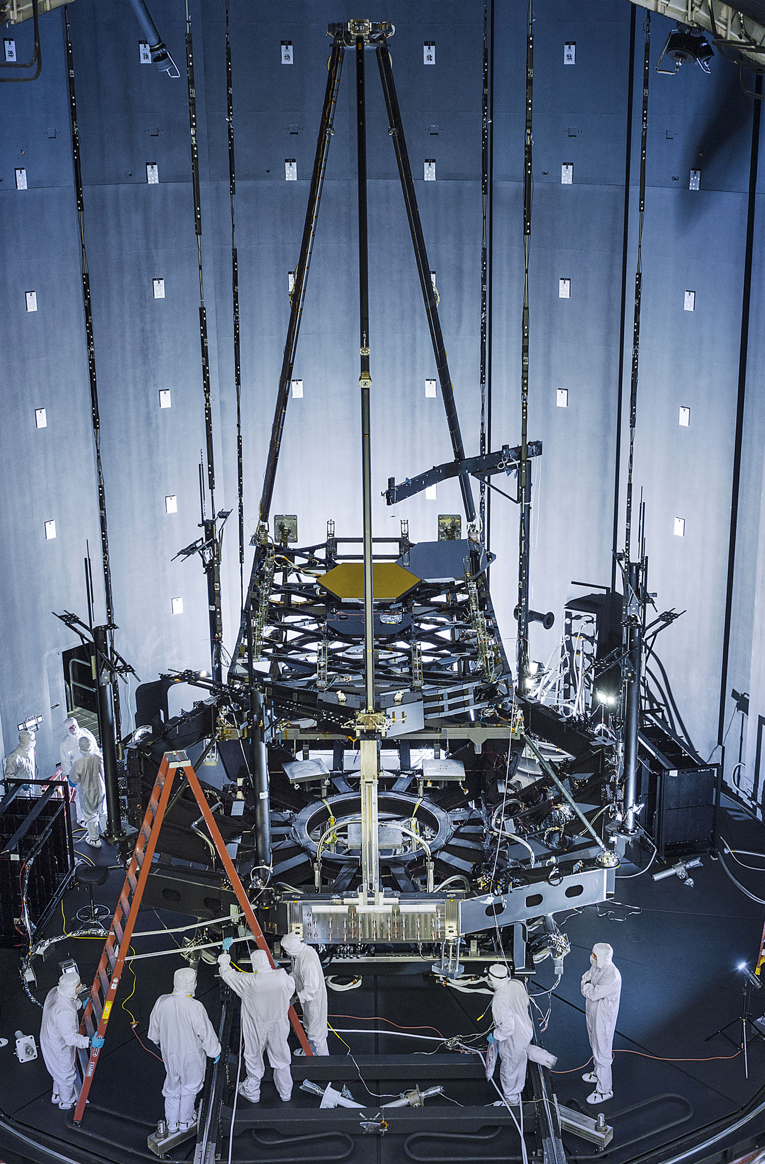 Inside NASA's giant thermal vacuum chamber, called Chamber A, at NASA's Johnson Space Center in Houston, the James Webb Space Telescope's Pathfinder backplane test model, is being prepared for its cryogenic test. Previously used for manned spaceflight missions, this historic chamber is now filled with engineers and technicians preparing for a crucial test. Exelis developed and installed the optical test equipment in the chamber. "The optical test equipment was developed and installed in the chamber by Exelis," said Thomas Scorse, Exelis JWST Program Manager. "The Pathfinder telescope gives us our first opportunity for an end-to-end checkout of our equipment." "This will be the first time on the program that we will be aligning two primary mirror segments together," said Lee Feinberg, NASA Optical Telescope Element Manager. "In the past, we have always tested one mirror at a time but this time we will use a single test system and align both mirrors to it as though they are a single monolithic mirror." The James Webb Space Telescope is the scientific successor to NASA's Hubble Space Telescope. It will be the most powerful space telescope ever built. Webb is an international project led by NASA with its partners, the European Space Agency and the Canadian Space Agency. Image credit: NASA/Chris Gunn Text credit: Laura Betz, NASA's Goddard Space Flight Center, Greenbelt, Maryland NASA image use policy. NASA Goddard Space Flight Center enables NASA’s mission through four scientific endeavors: Earth Science, Heliophysics, Solar System Exploration, and Astrophysics. Goddard plays a leading role in NASA’s accomplishments by contributing compelling scientific knowledge to advance the Agency’s mission. Follow us on Twitter Like us on Facebook Find us on Instagram